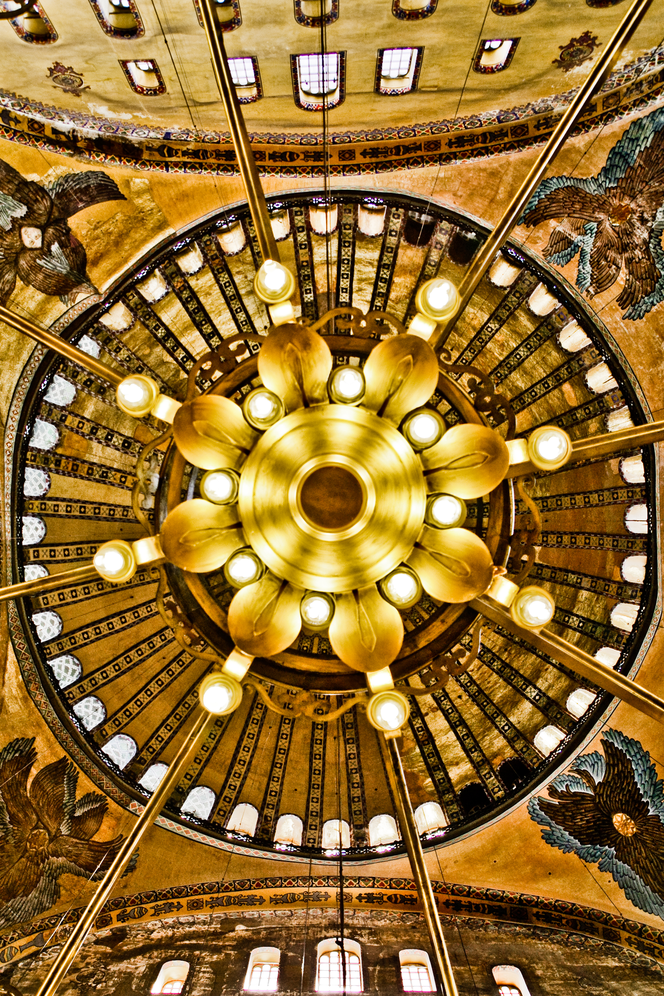 The Hagia Sophia Museum Dome Painting. Photographed from the Floor upwards in September 2010 by michaelkowalczyk.eu